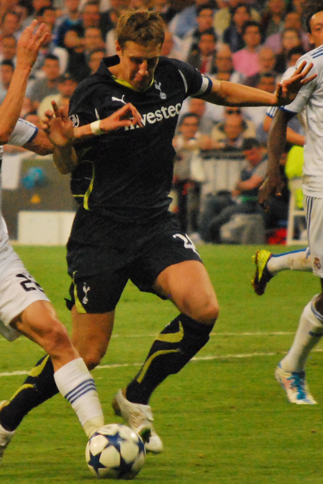 Angel Di María of Real Madrid defended by Michael Dawson of Tottenham Hotspur. Benoît Assou-Ekotto to the left, Emmanuel Adebayor to the right.